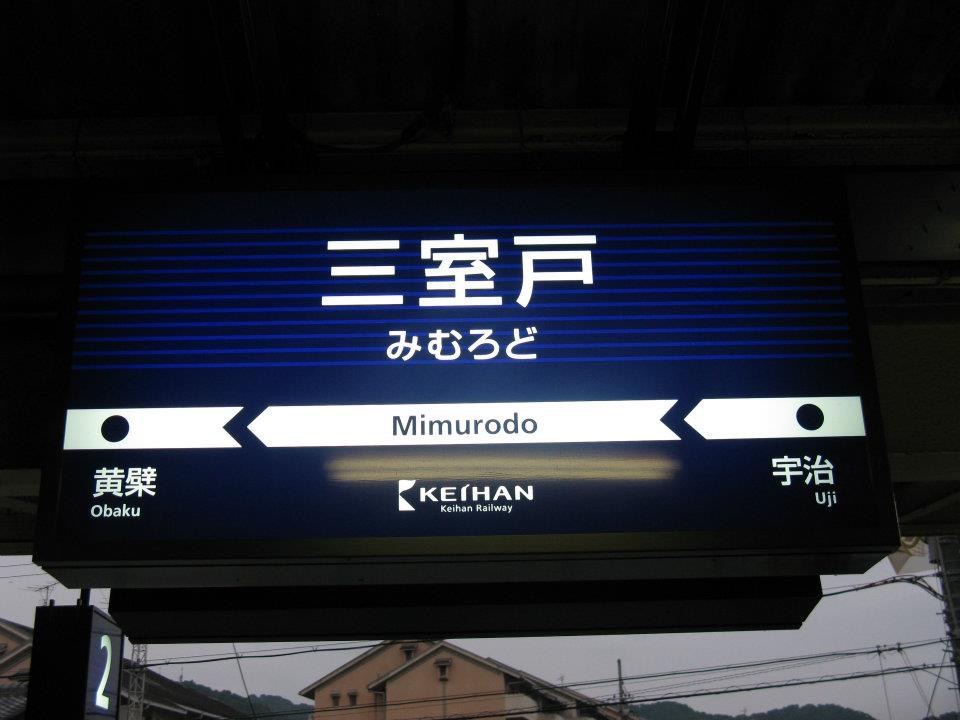 Mimurodo